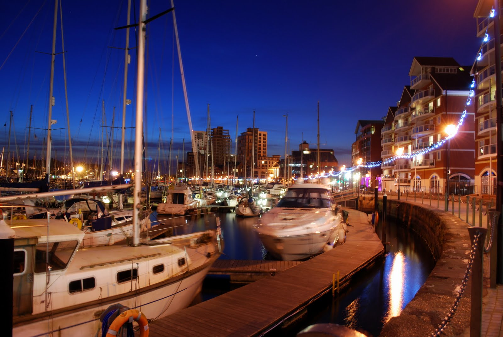 Neptune Marina, Ipswich